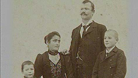 András Kuzmich (Jandre Kuzmić) Burgenland Croatian teacher and writer with his family